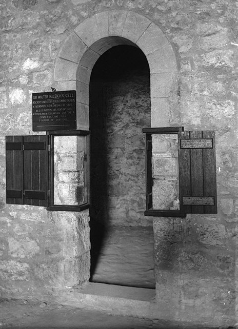 Sir Walter Raleigh's cell in the Tower of London (White Tower)